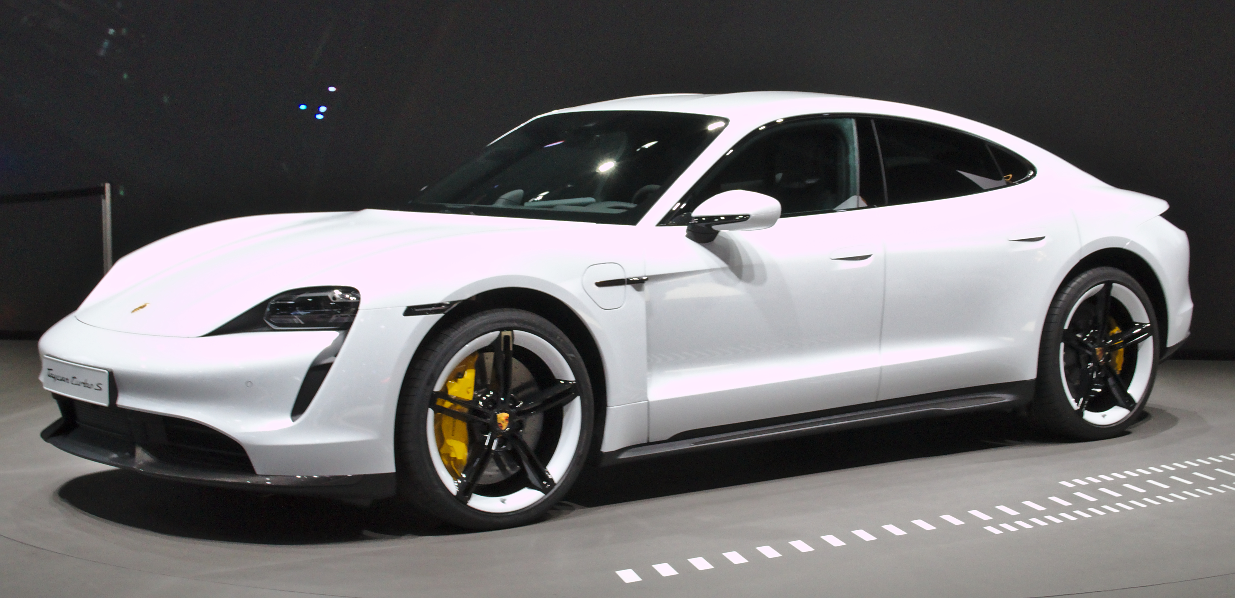 Porsche_Taycan at IAA 2019